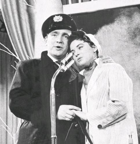 Birthe Wilke & Gustav Winckler, performing for Denmark at the Eurovision Song Contest 1957